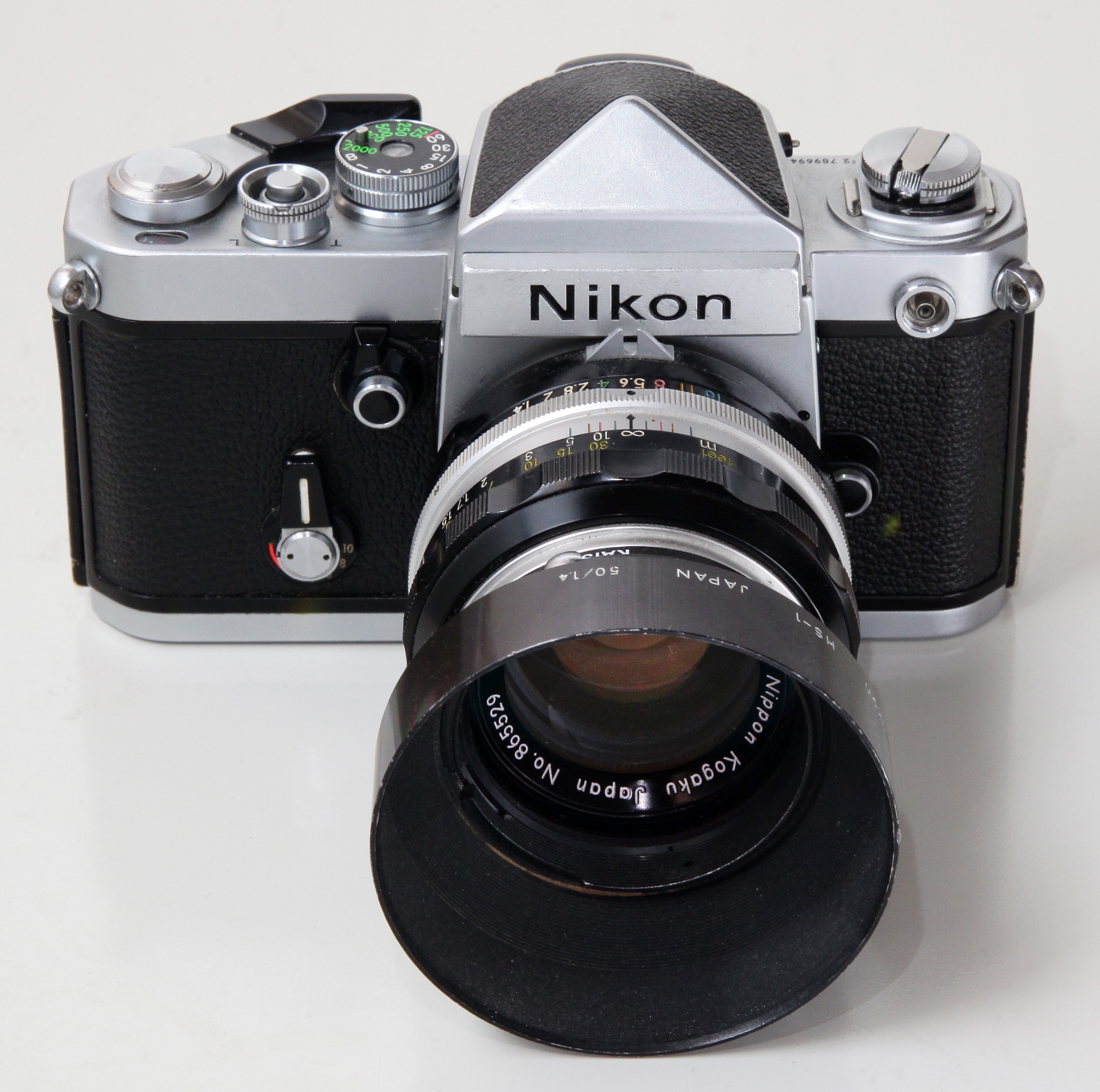 Nikon F2 chrome camera with DE-1 finder and Nikkor-S 1,4/50 lens.